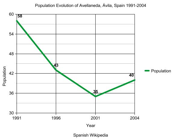 Avellaneda's population, Ávila, Spain, (1991-2004).